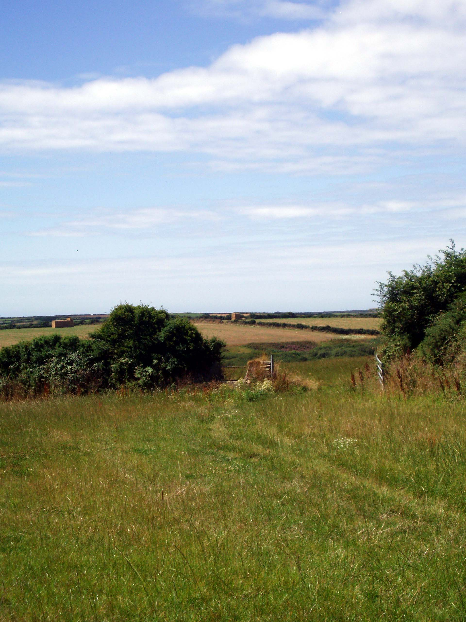 Farmland cut for hay taken near St Buryan (countryside to the south)